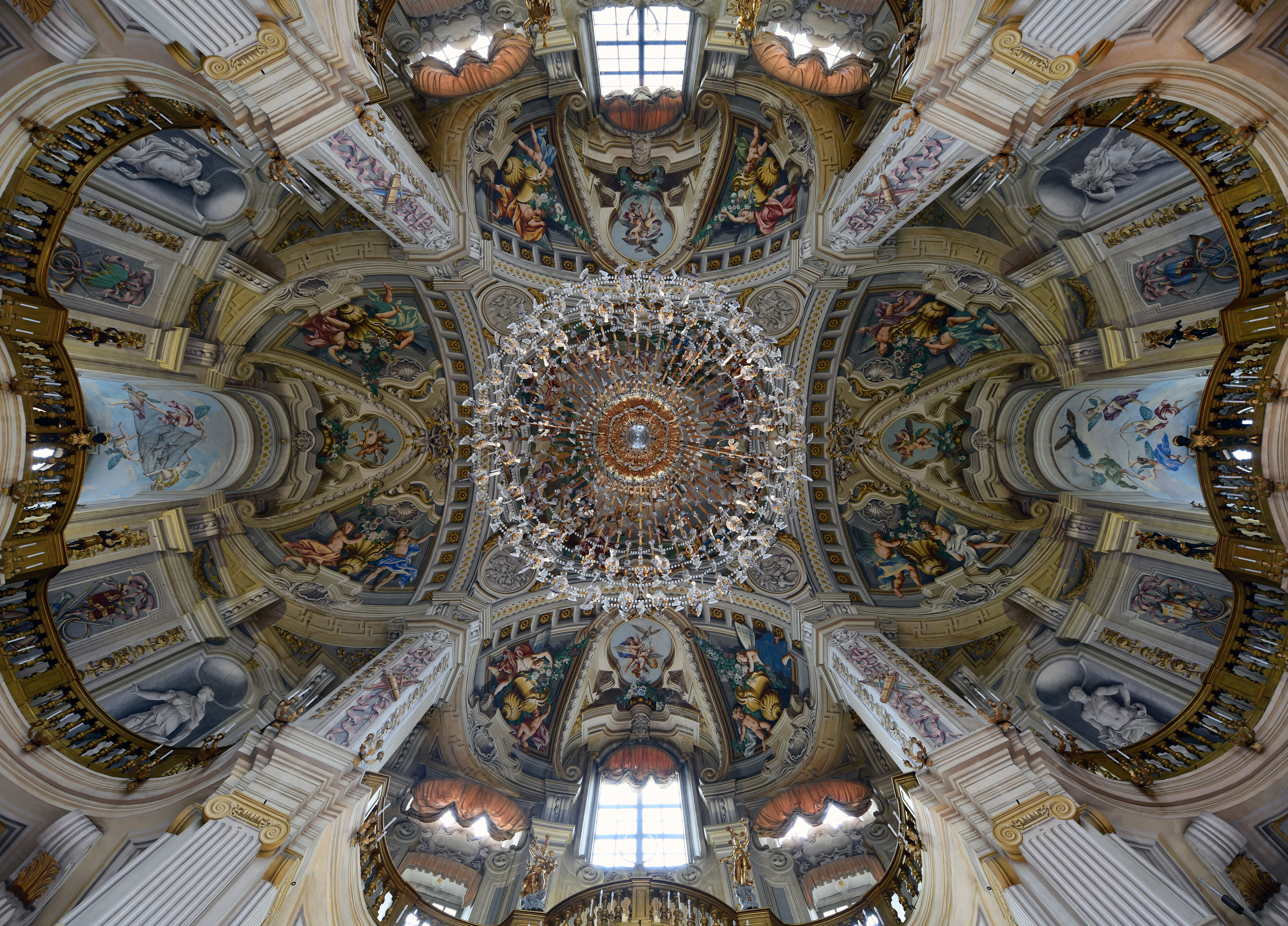 Central Hall of the Palazzina di caccia of Stupinigi - ceiling